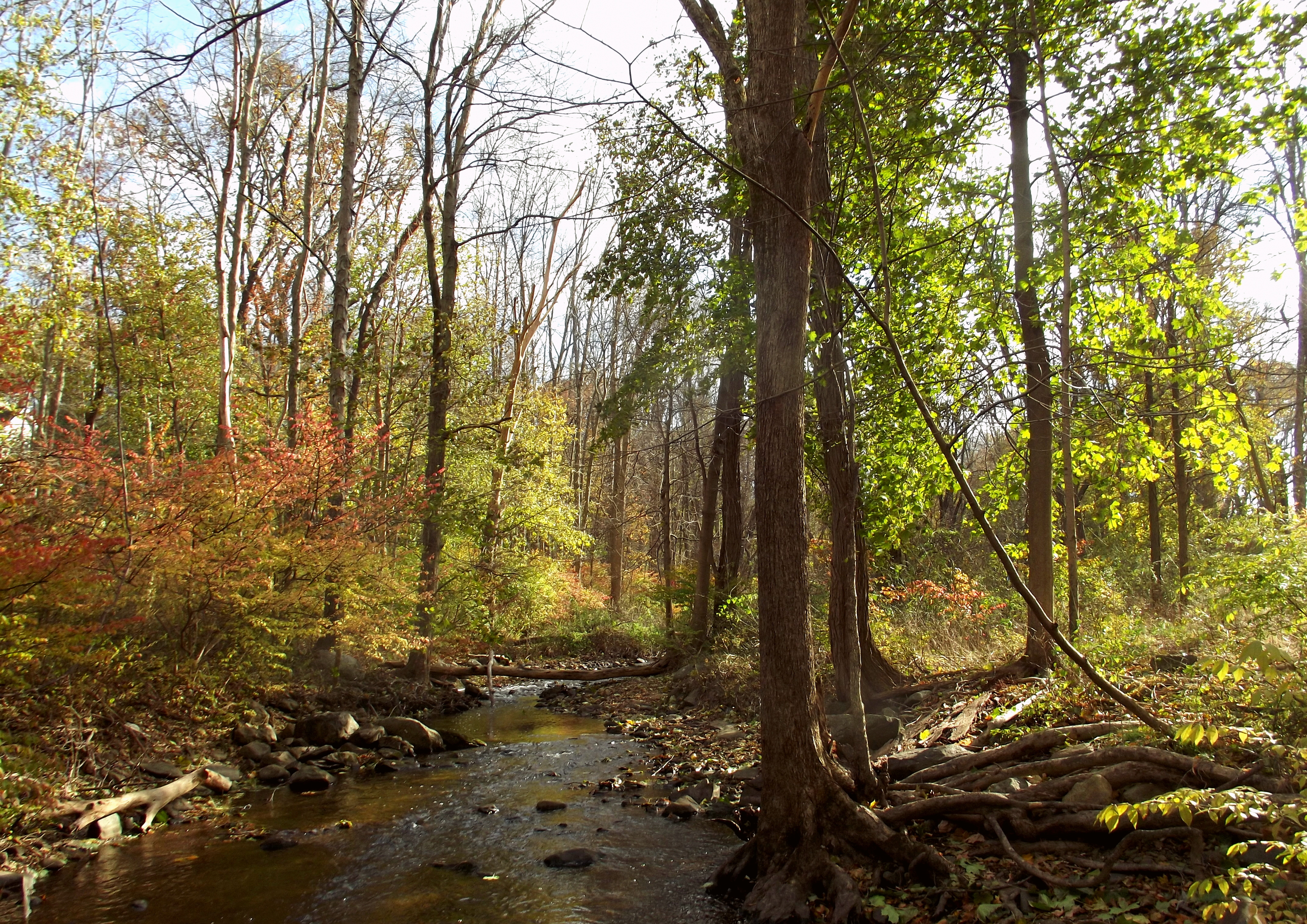 A photo of the Kisco River along the Early Settler's Trail in mid-autumn.